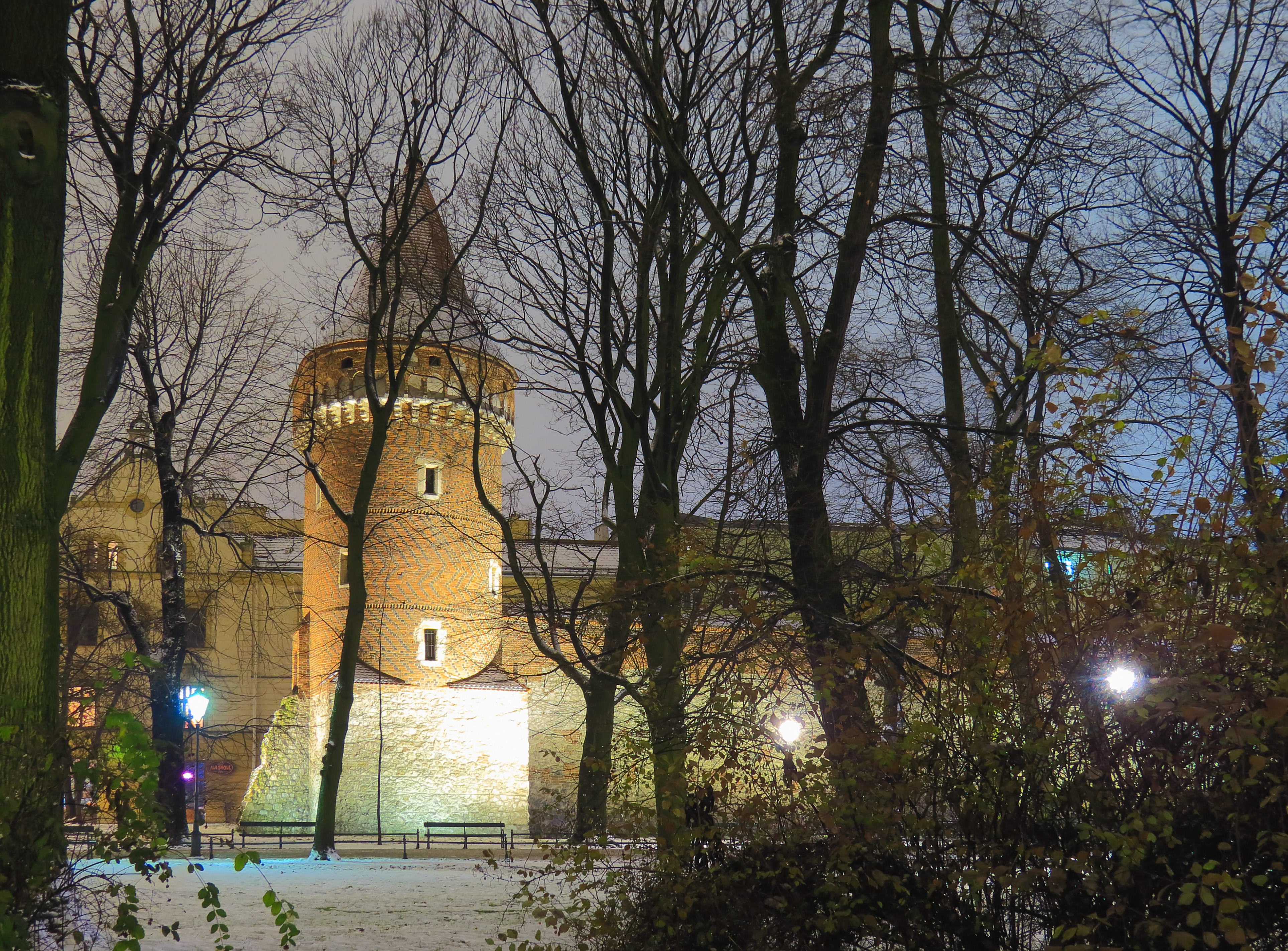 Haberdasher Tower in Kraków